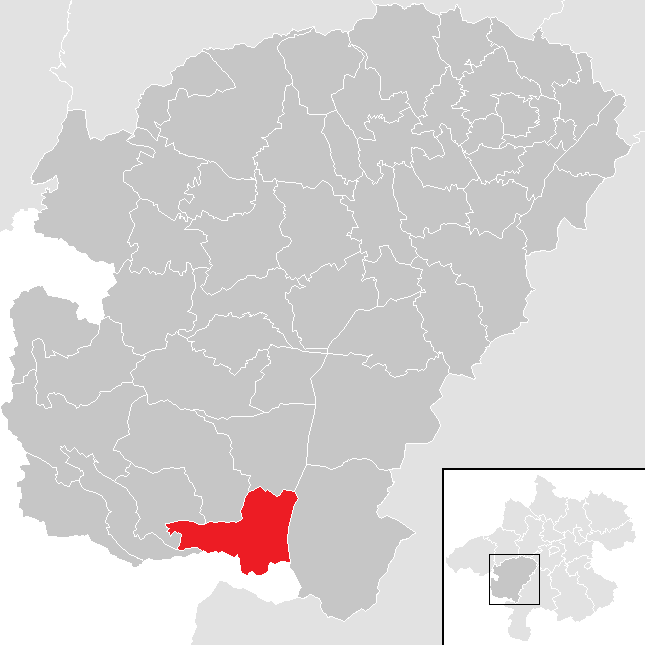 District Vöcklabruck